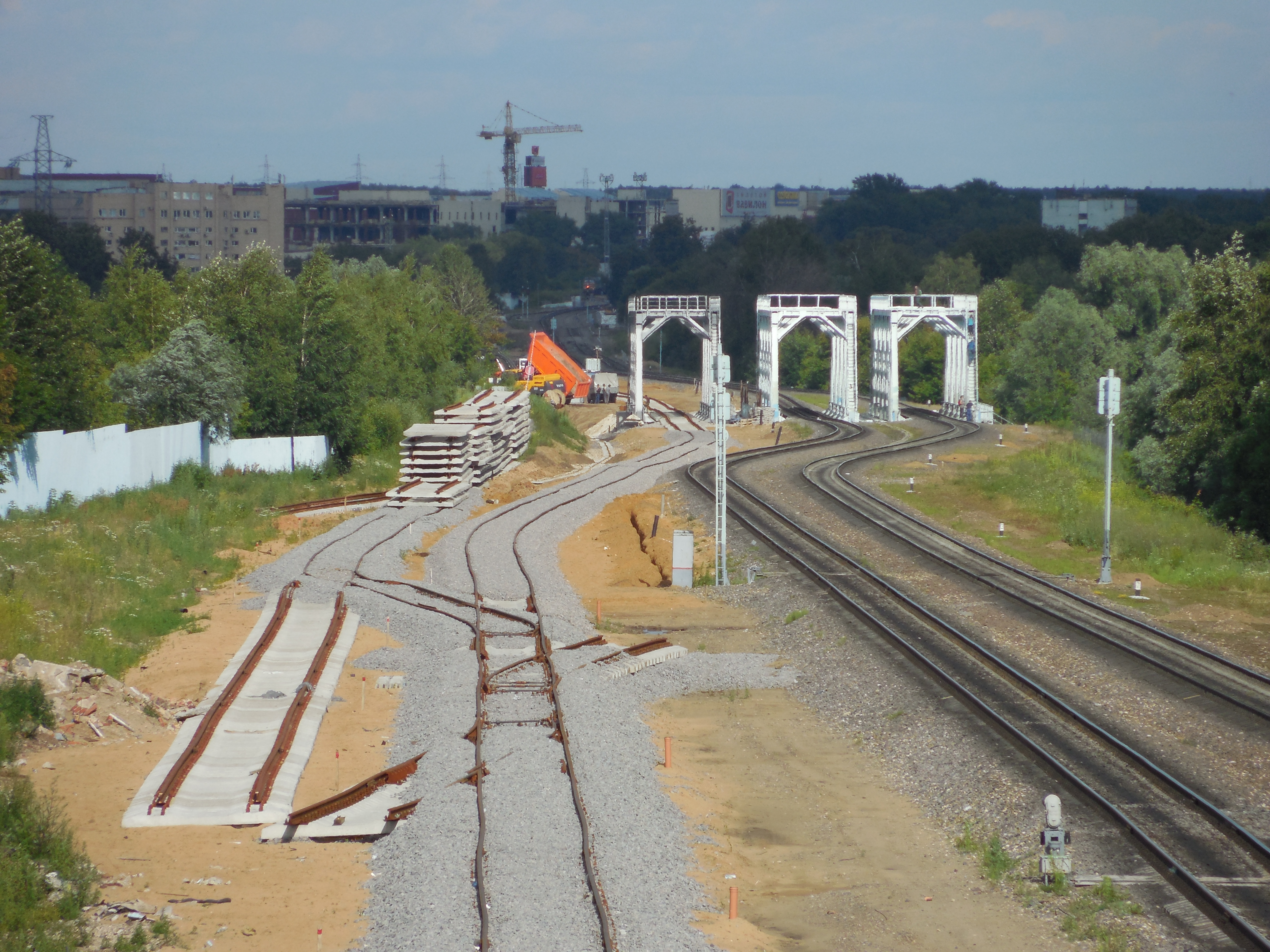 Construction of 3-rd track at MKMZD railway line in Moscow. Север МК МЖД 2014